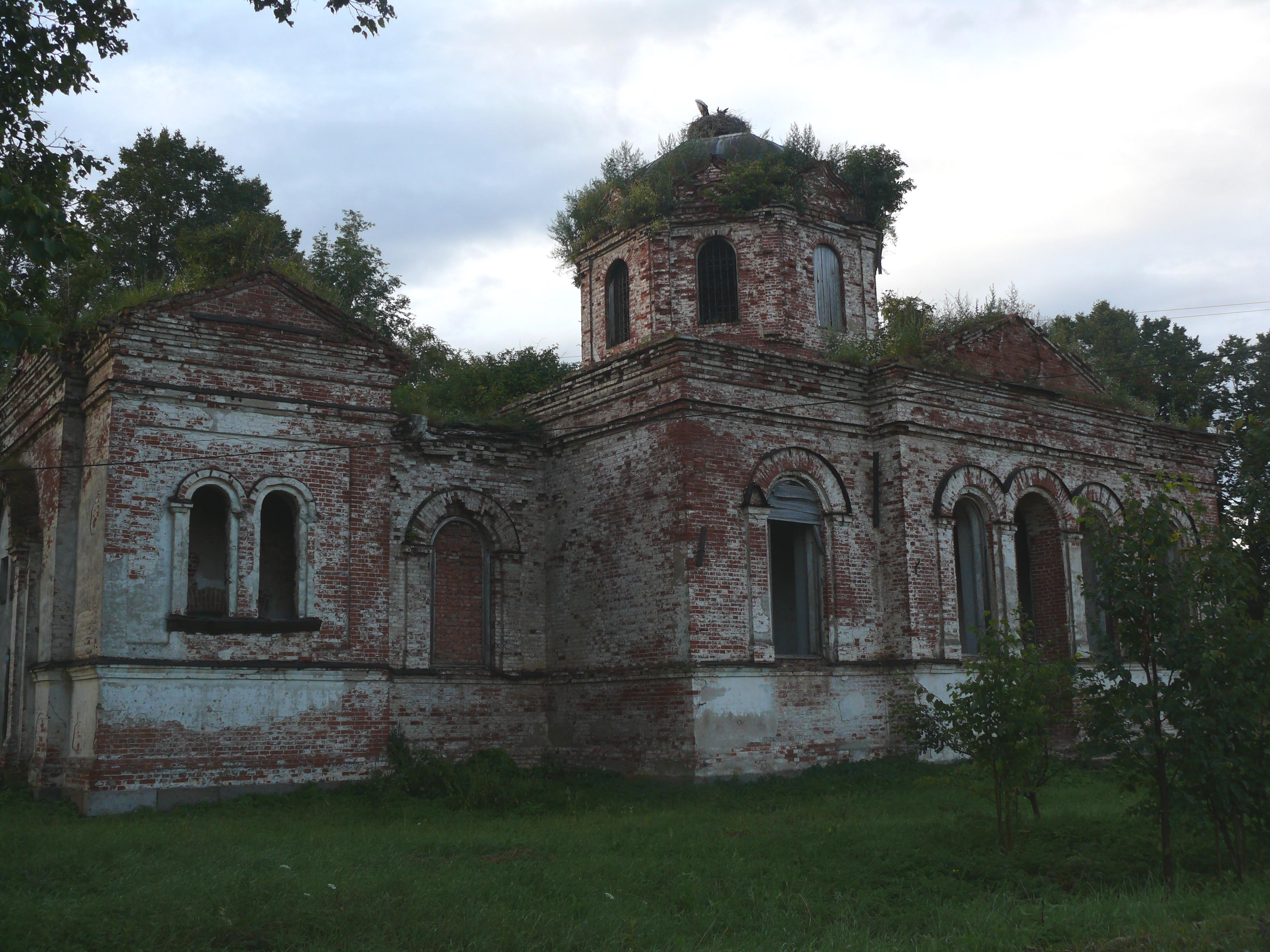 Church in Gortsy village, Shimsky District, Novgorod Oblast, Russia